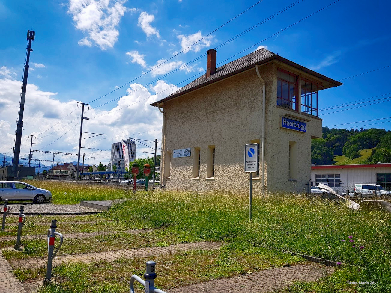 Stellwerk in Heerbrugg - Place of culture